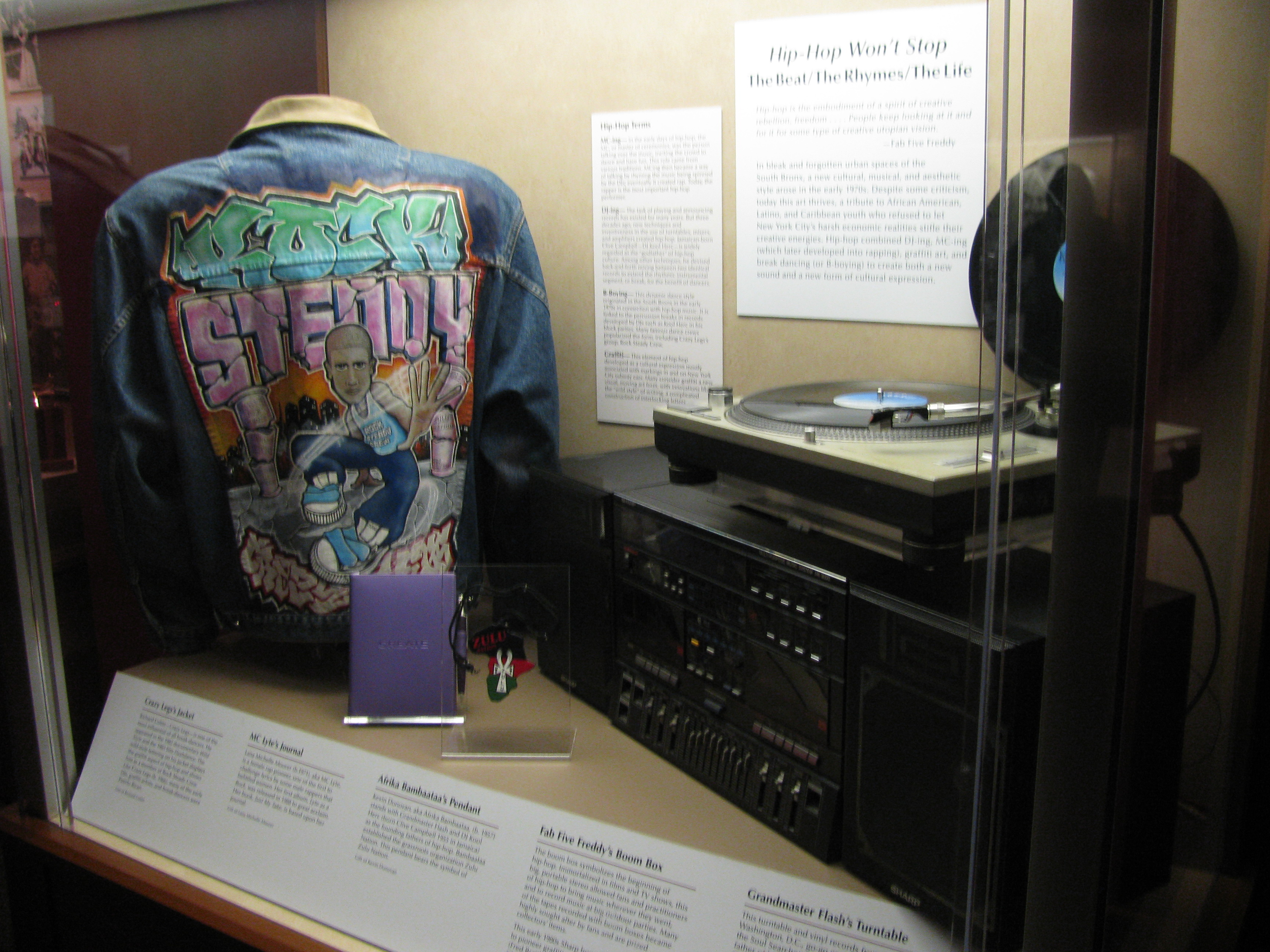 National Museum of American History (Smithsonian Institution) Crazy Legs Jacket Mc Lyte's Journal Fab Five Freddy's Boom Box Afrika Bambaataa's Pendant Granmaster Flash's Turntatable